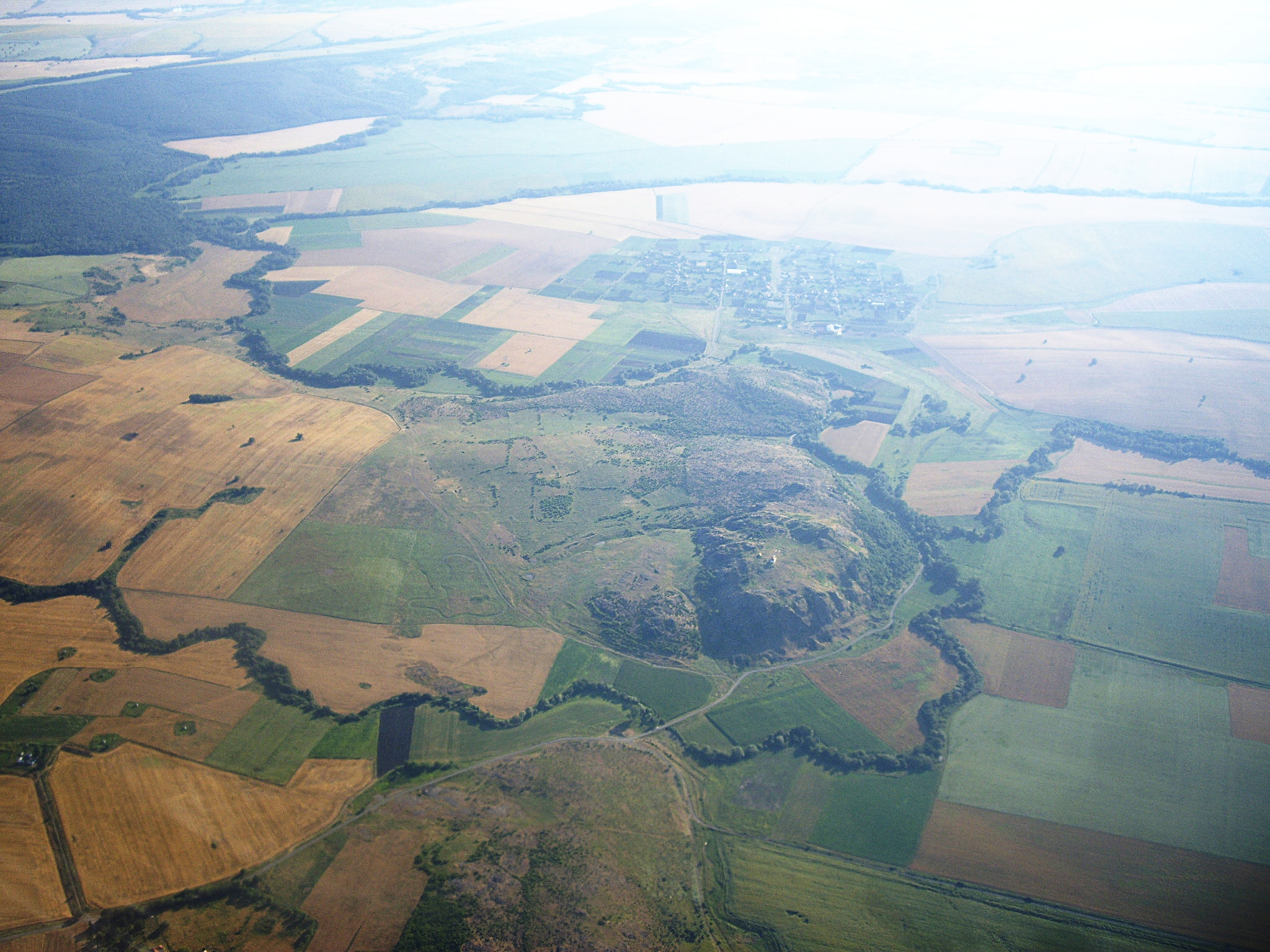 Bulgaria, Burgas District: Rusokastro Fortress and the Village Zhelyzovo